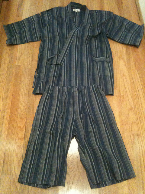 A photo of Japanese "Jinbei" robes both top and bottom